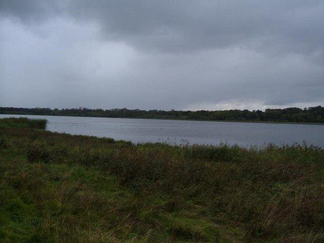 Aqualate Mere, near to Sutton, Staffordshire, Great Britain. Aqualate Mere